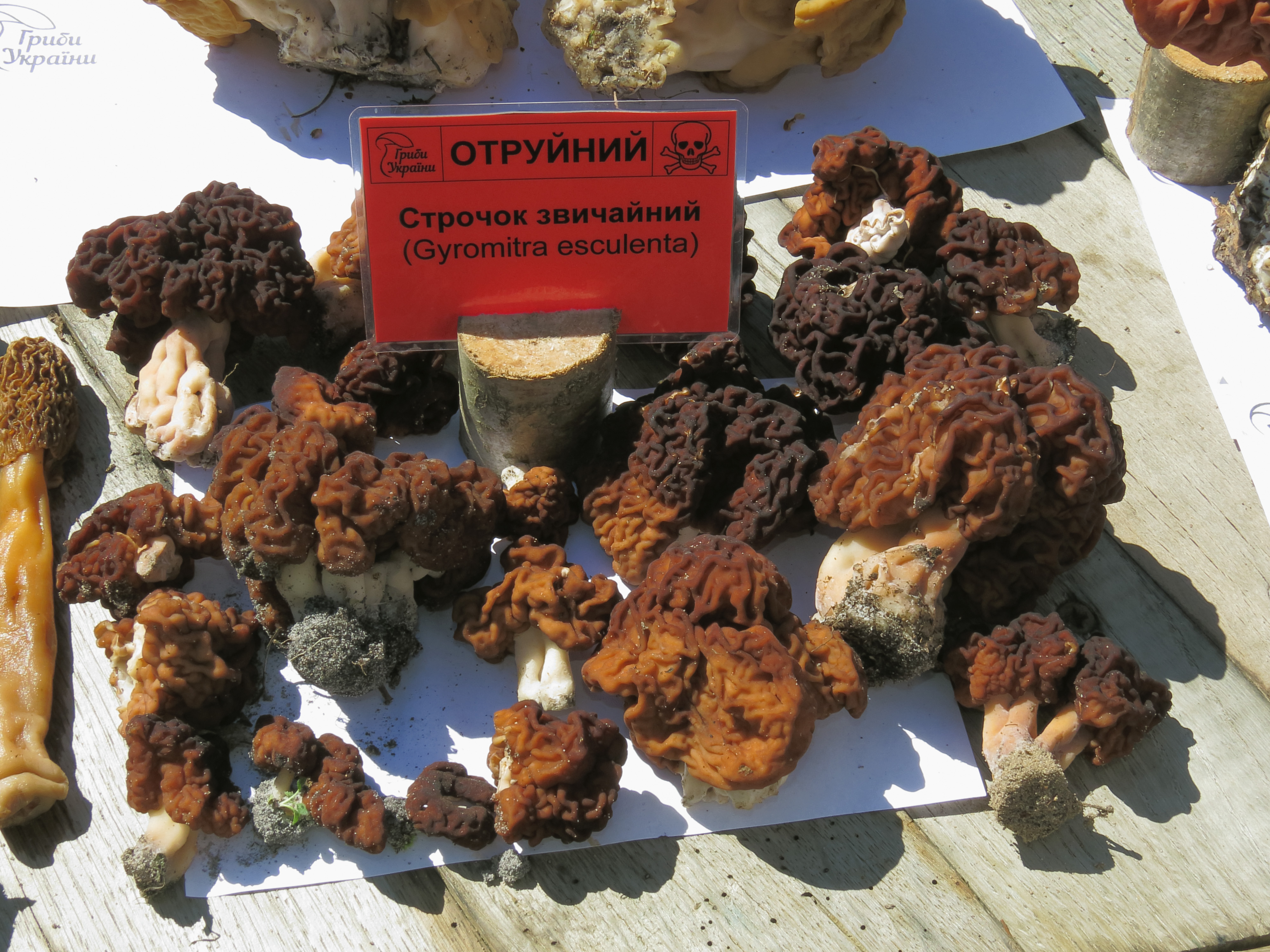 Mushroom exhibition in Shevchenko park, Kiev, Ukraine. Gyromitra esculenta